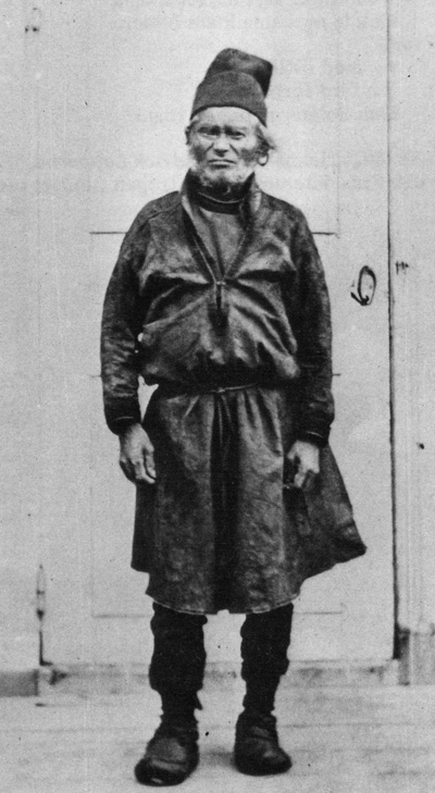 The Sámi priest and poet Anders Fjellner in traditional costume. Photo from 1871 by Lotten von Düben.